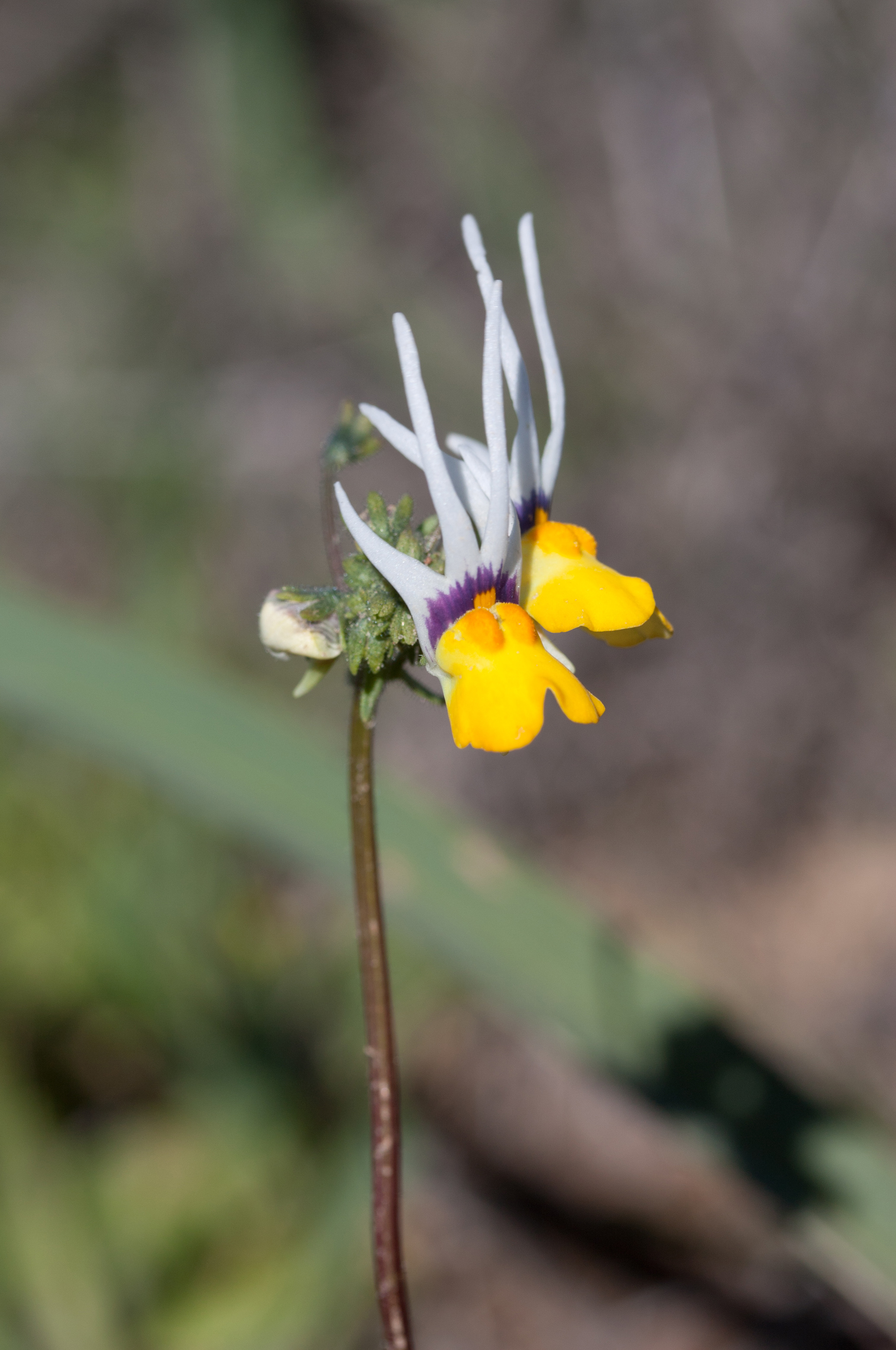 Nemesia cheiranthus, photographed in the Hantam National Botanical Garden, Nieuwoudtville, South Africa. Coordinates are approximate.